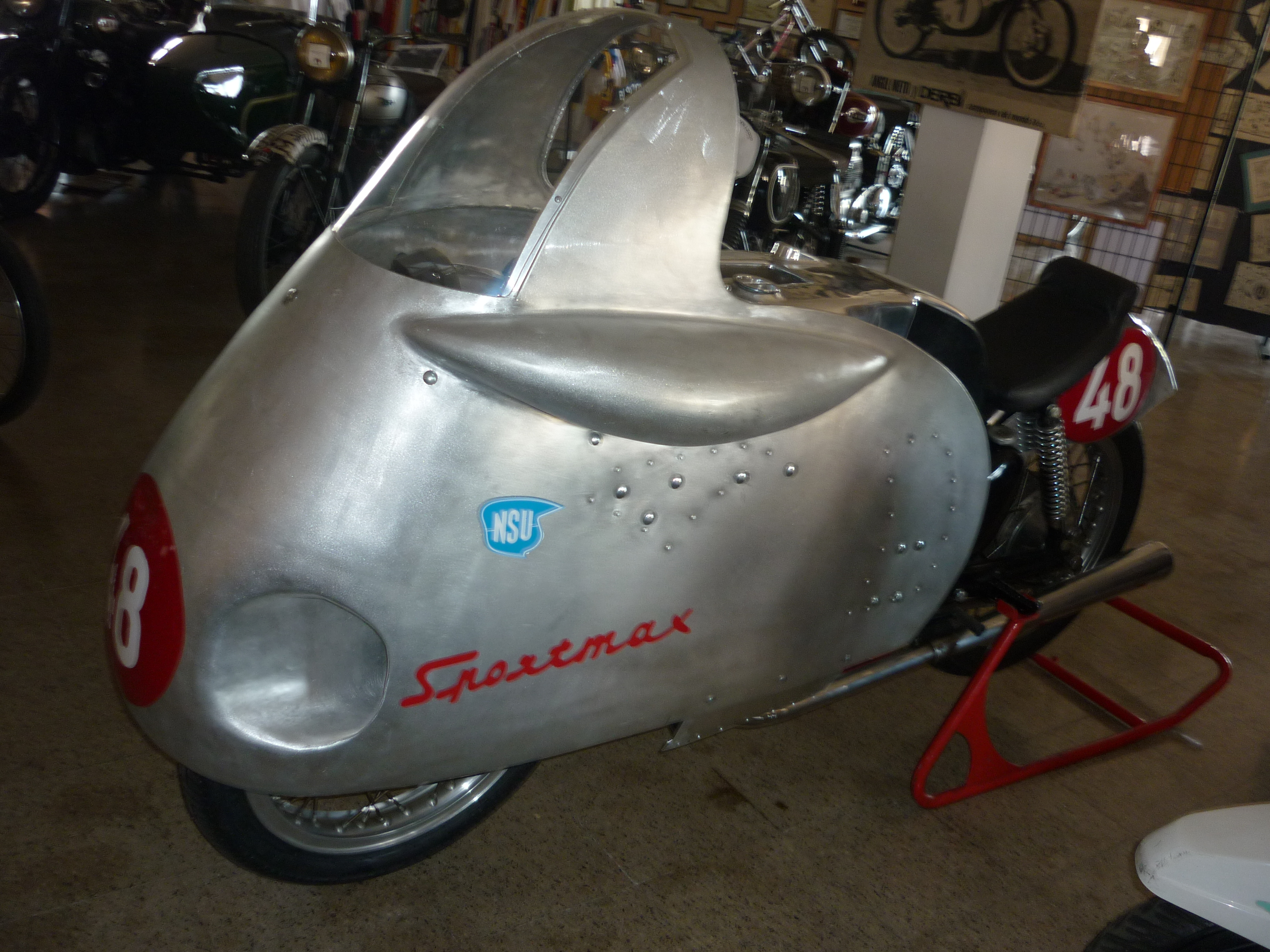 NSU Sportmax 250, 1955